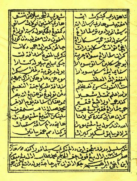 A manuscript of Gurindam 12, published in 1847